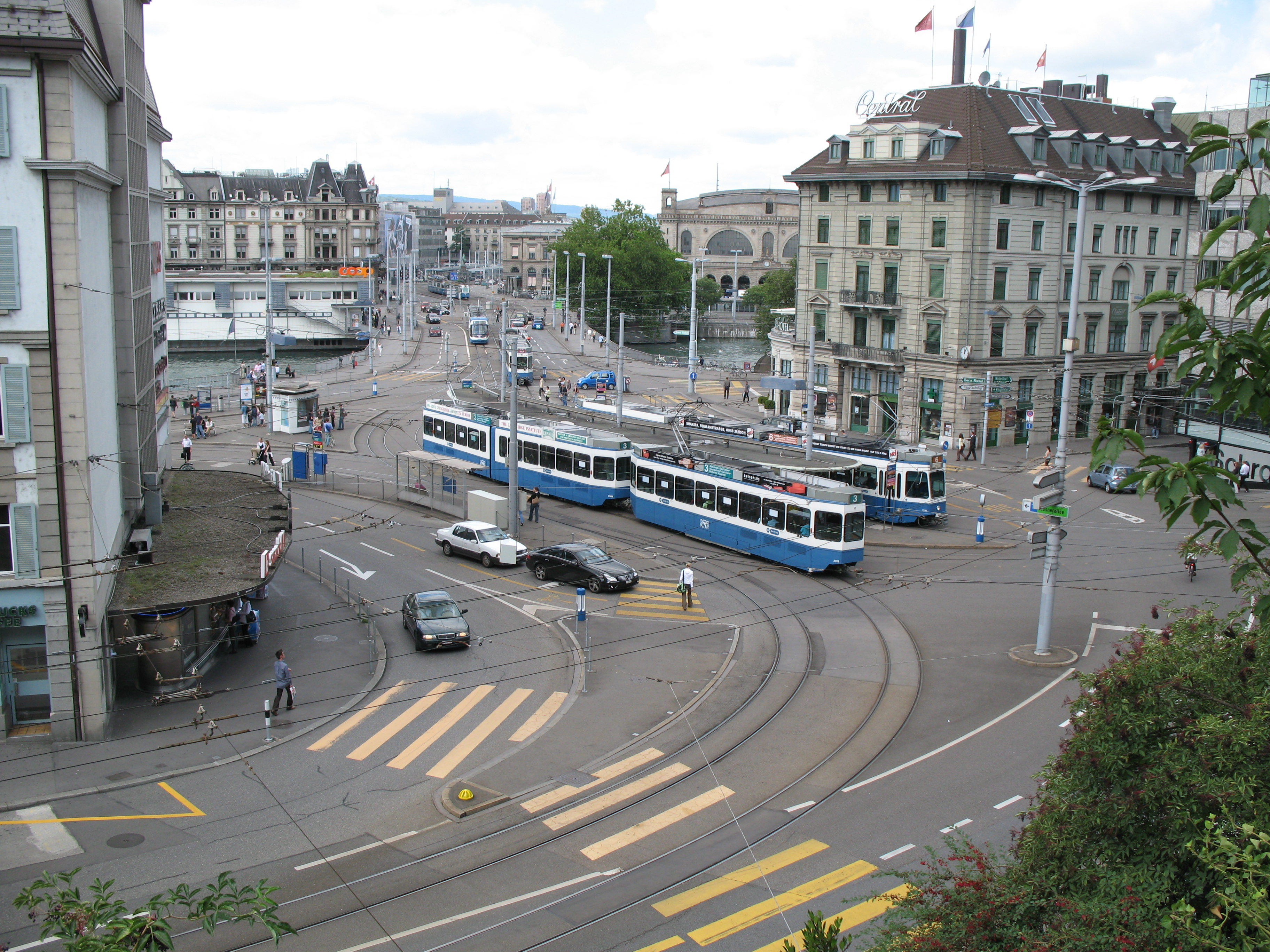 Central, Zürich, Switzerland